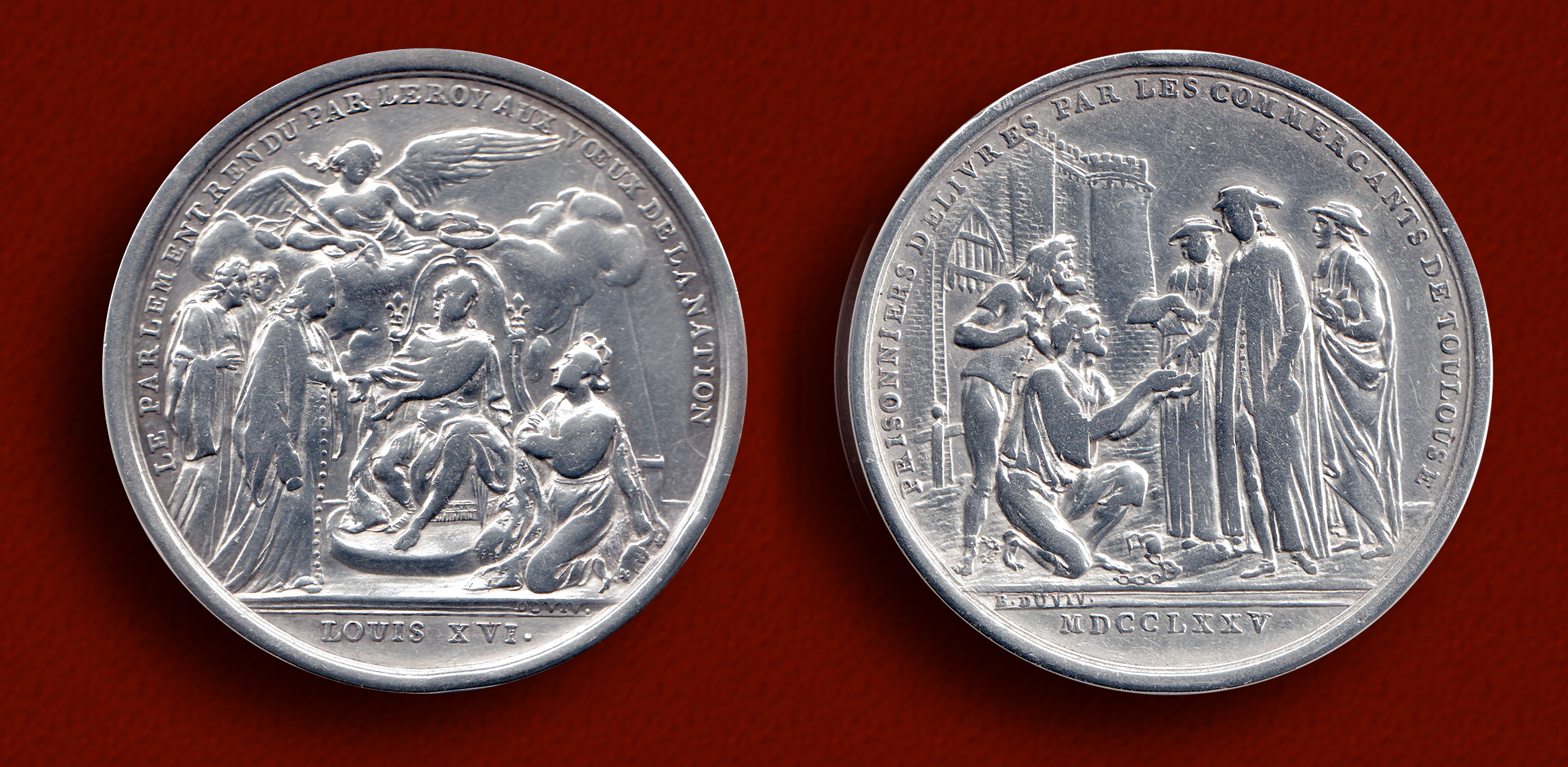 "Le Couronnement de Louis XVI" (1775) Silver medallion by Pierre Simon Benjamin Duvivier (1730-1819). Signed: "B . DUVIV ." 40mm, 27.3gm (0.962 oz) (Medallion created for the coronation of King Louis XVI of France on June 11, 1775.) Obverse: "Le parlement rendu par le roy aux voeux de la nation." ("The Parliament returned by the King at the wish of the nation.") Reverse: "Prisonniers delivrés par les commerçants de Toulouse." ("Prisoners delivered by the tradesmen of Toulouse.") Source: "The Cooper Collections" (uploader's private collection) See metadata below. DUVIVIER, Pierre Simon Benjamin, graveur-medailleur. Né a Paris en 1730, mort en 1819. Fils de Jean Duvivier, il apprit dans l'atelier de son pére la gravure des medailles. Il recut en 1756 un premier prix de l'Academie de Paris, et fut autorise en 1761 a succéder a son pére au Louvre. En 1774, II fut nomme Graveur General des Monnaies de France. Il créa les monnaies de Louis XVI, de son avénement a Révolution. DUVIVIER, Pierre Simon Benjamin, Medallion engraver. Born in Paris in 1730, died in 1819. Son of Jean Duvivier, he learned the engraving of medallions in the workshop of his father. He received in 1756 the first prize of the l'Academie de Paris, and was allowed in 1761 to succeed his father at the Louvre. In 1774 he was named Engraver General of Currencies of France. He created the currencies of Louis XVI from his advent to the Revolution.